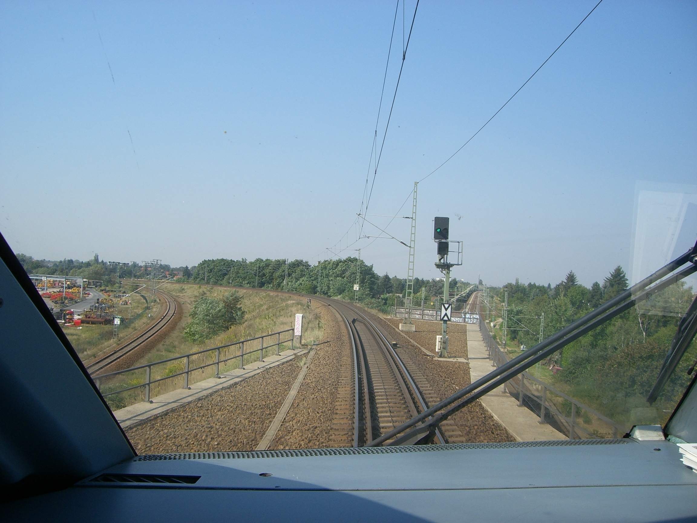 Cockpit view from an InterCityExpress train headed for Hannover, near Berlin-Spandau. Here, the high-speed track for Hannover separates from the Berlin-Hamburg line (on the right of the picture).